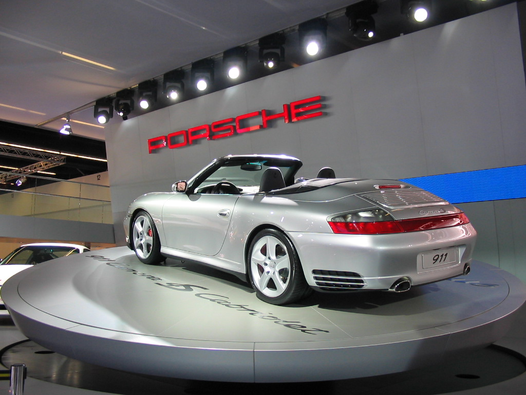 Porsche 996 Carrera 4S Cabrio (Rearview). Photo taken at IAA.